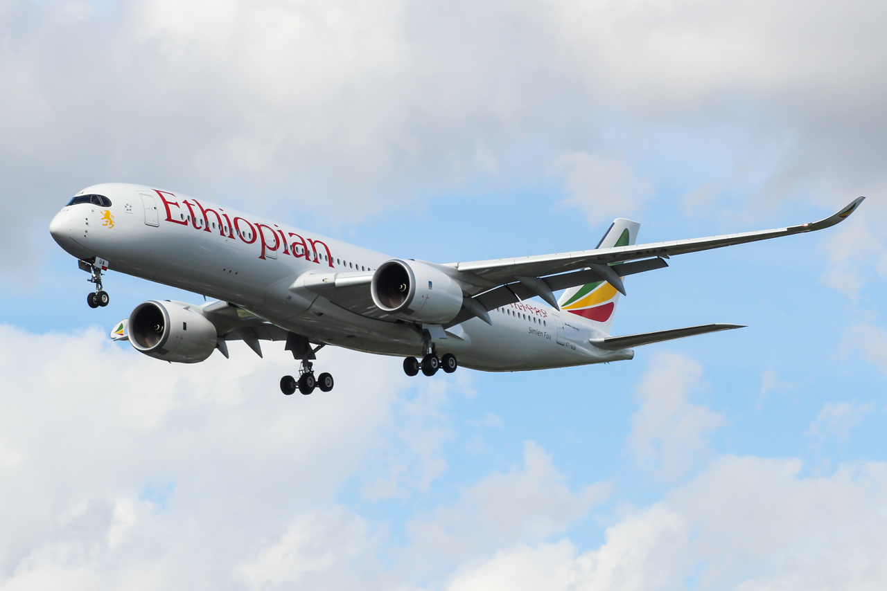 ET-AUA A350 Ethiopian